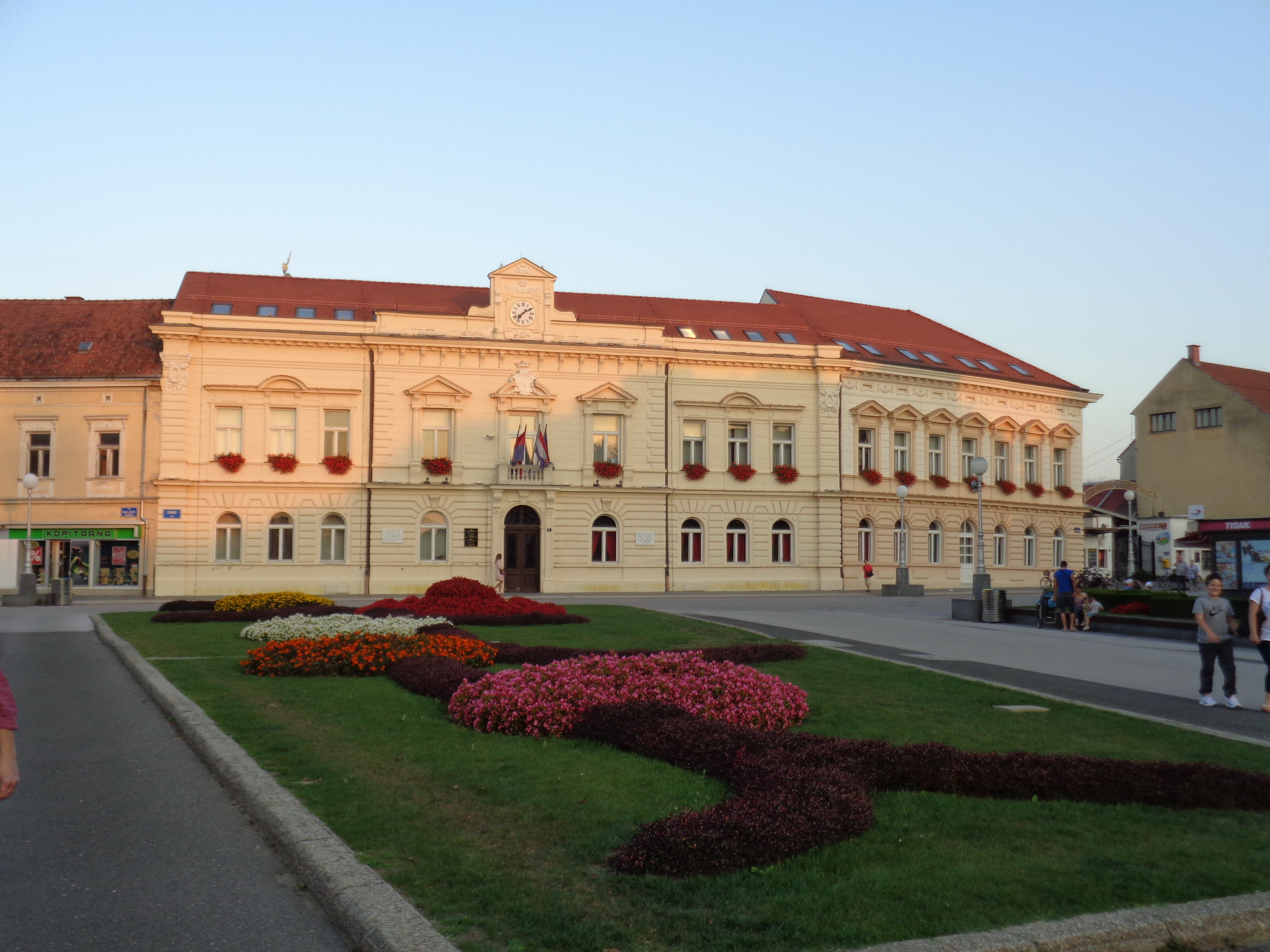 The Town of Koprivnica, Koprivnica-Križevci County, Croatia - centre